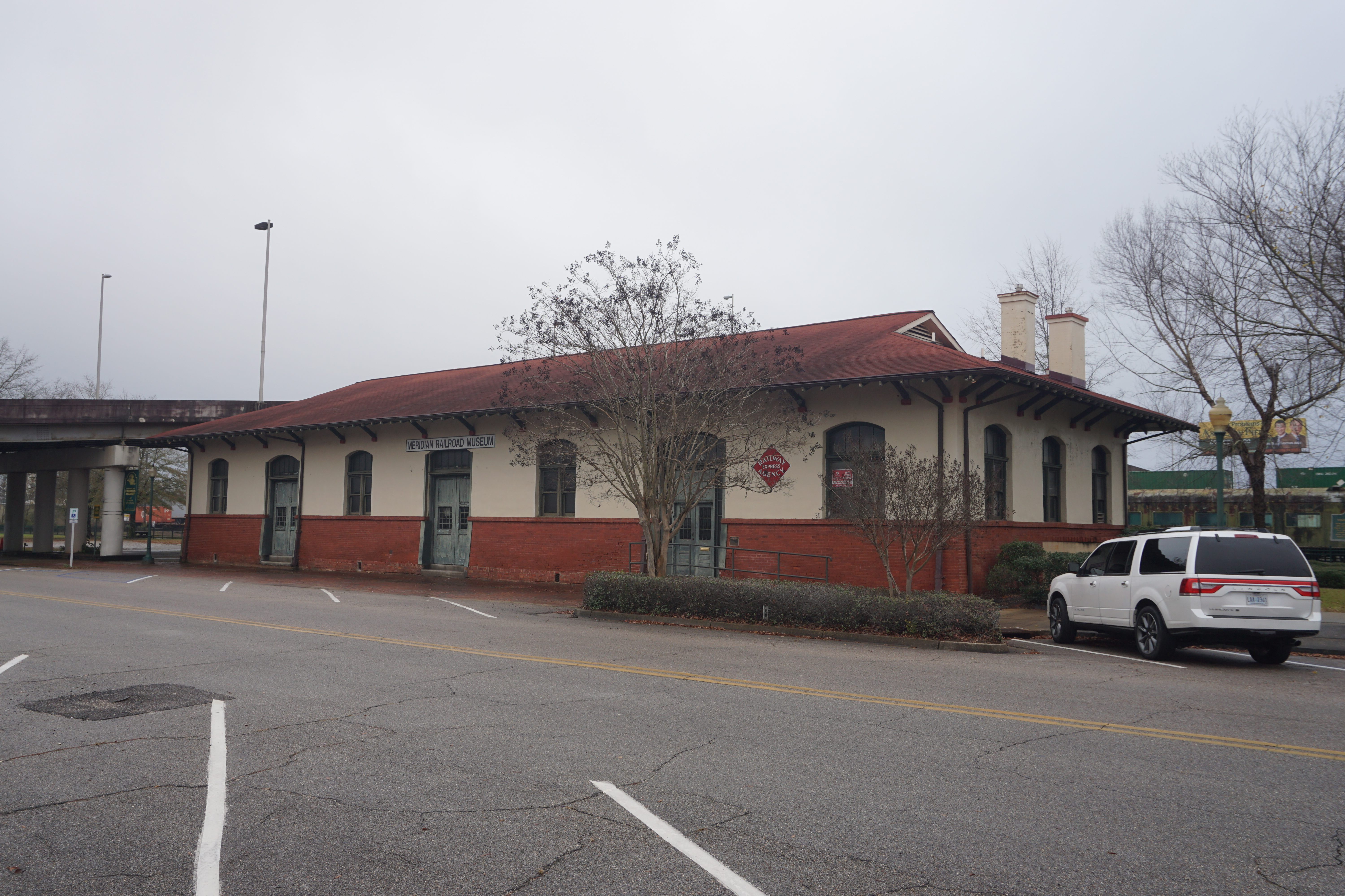 The Meridian Railroad Museum at Union Station in Meridian, Mississippi (United States).